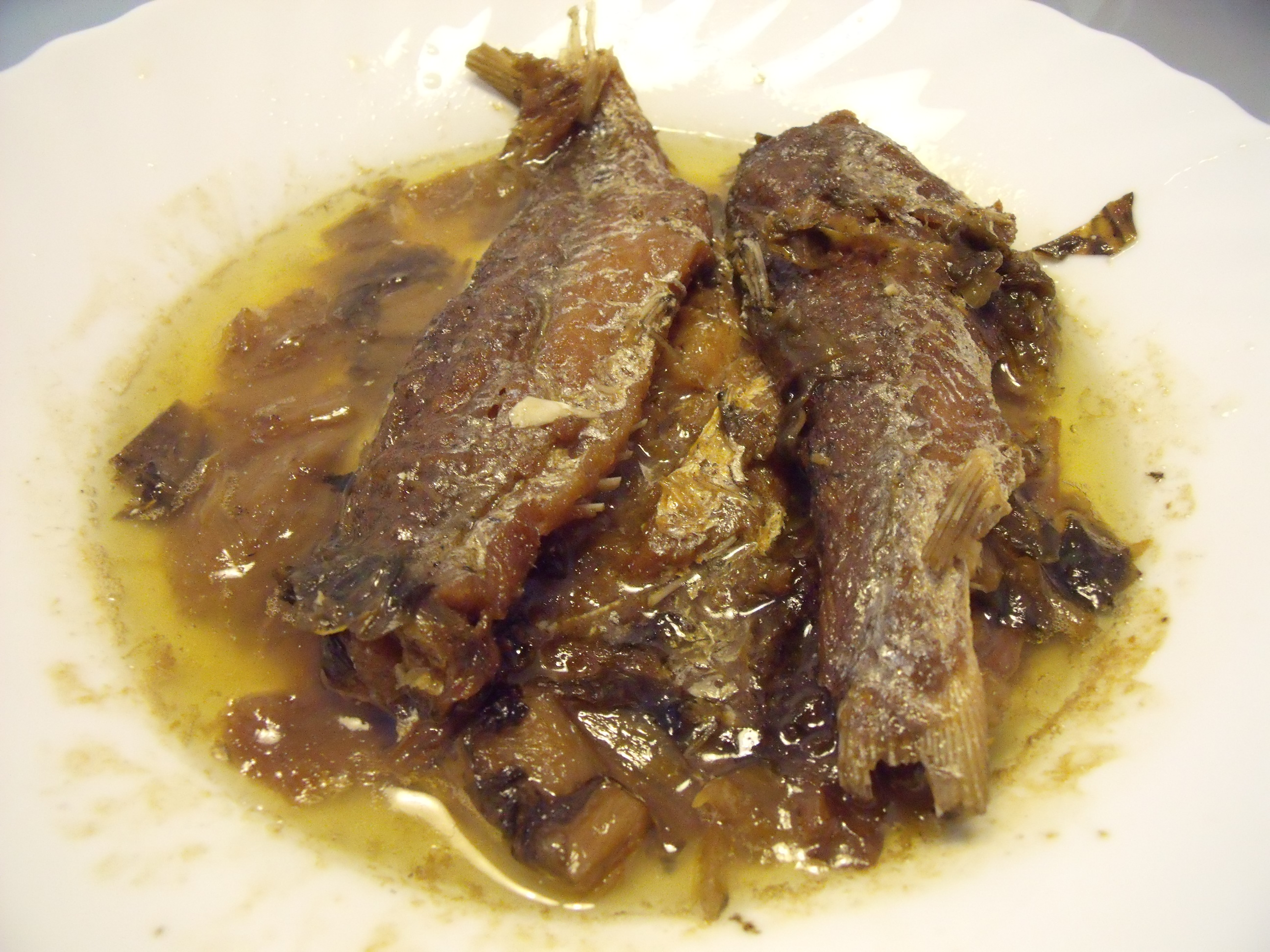 My lunch on 6th January 2011.